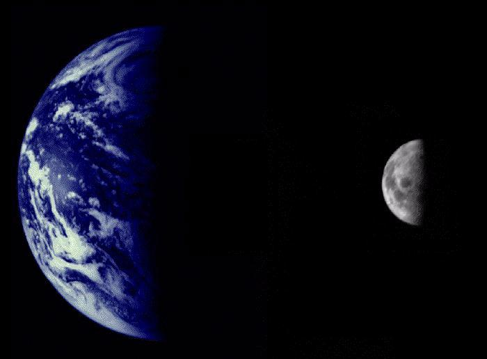 Mariner 10 was launched on November 3, 1973, 12:45 am PST, from Cape Canaveral on an Atlas/Centaur rocket (a reconditioned Intercontinental Ballistic Missile - ICBM). Within 12 hours of launch the twin cameras were turned on and several hundred pictures of both the Earth and the Moon were acquired over the following days. The Earth and Moon were imaged by Mariner 10 from 2.6 million km while completing the first ever Earth-Moon encounter by a spacecraft capable of returning high resolution digital color image data. These images have been combined at right to illustrate the relative sizes of the two bodies. From this particular viewpoint the Earth appears to be a water planet! The Mariner 10 mission is managed by the Jet Propulsion Laboratory for NASA's Office of Space Science, explored Venus in February 1974 on the way to three encounters with Mercury-in March and September 1974 and in March 1975. The spacecraft took more than 7,000 photos of Mercury, Venus, the Earth and the Moon.